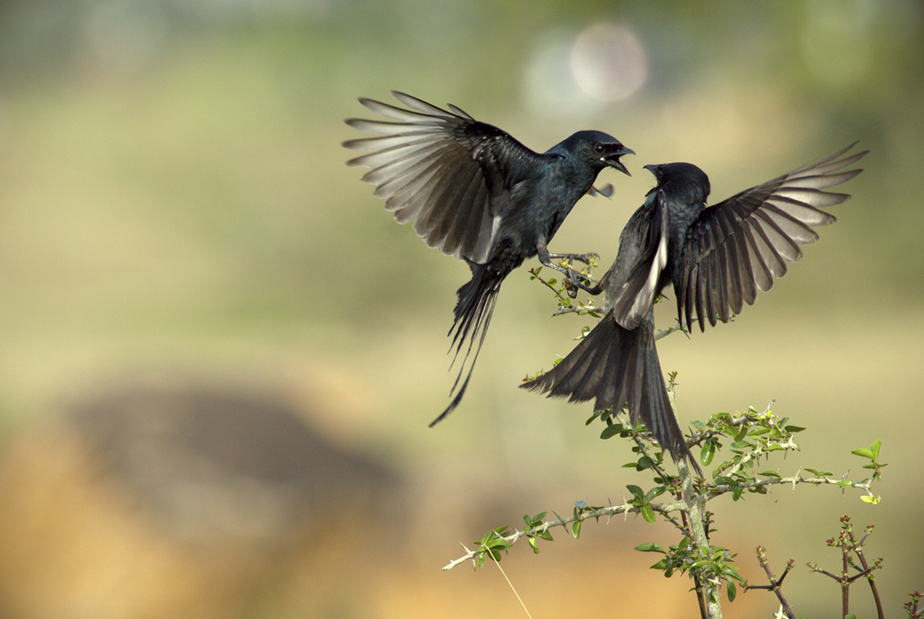 This was shot in siruthavur when i saw these drongo birds play very happily.